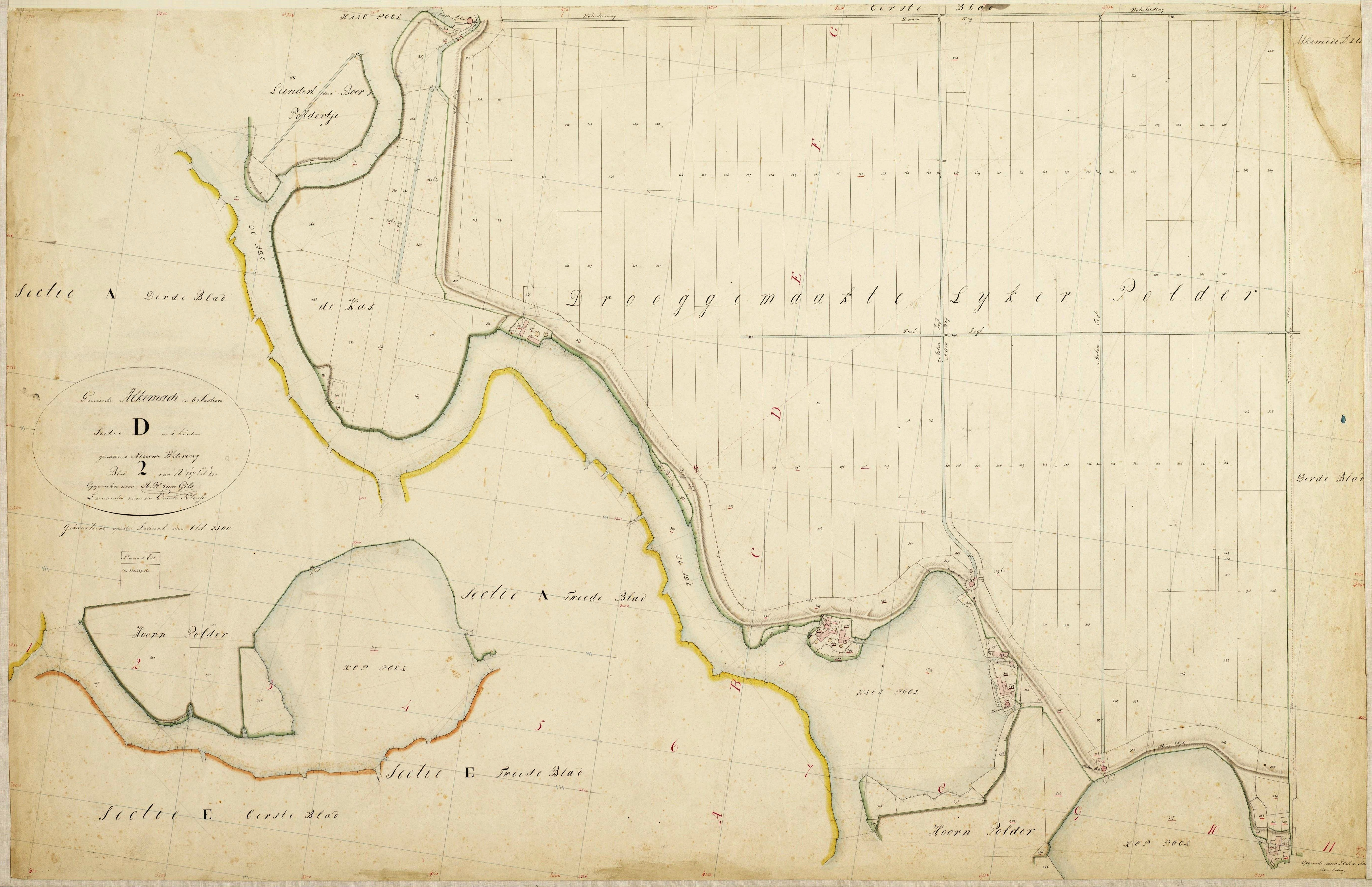 Cadastral map from 1828 of the (former) municipality of Alkemade (Province of South Holland, Netherlands), Section D (called Nieuwe Wetering), Sheet 2. The map shows the river/peat stream the Ade, the Kleipoel and Koppoel (two small lakes of the Kaag Lakes), the Kas Polder, the Hoorn Polder, the Leendert den Boer's Polder and the northwestern part of the Drained Lijker Polder. The north is ± at left.